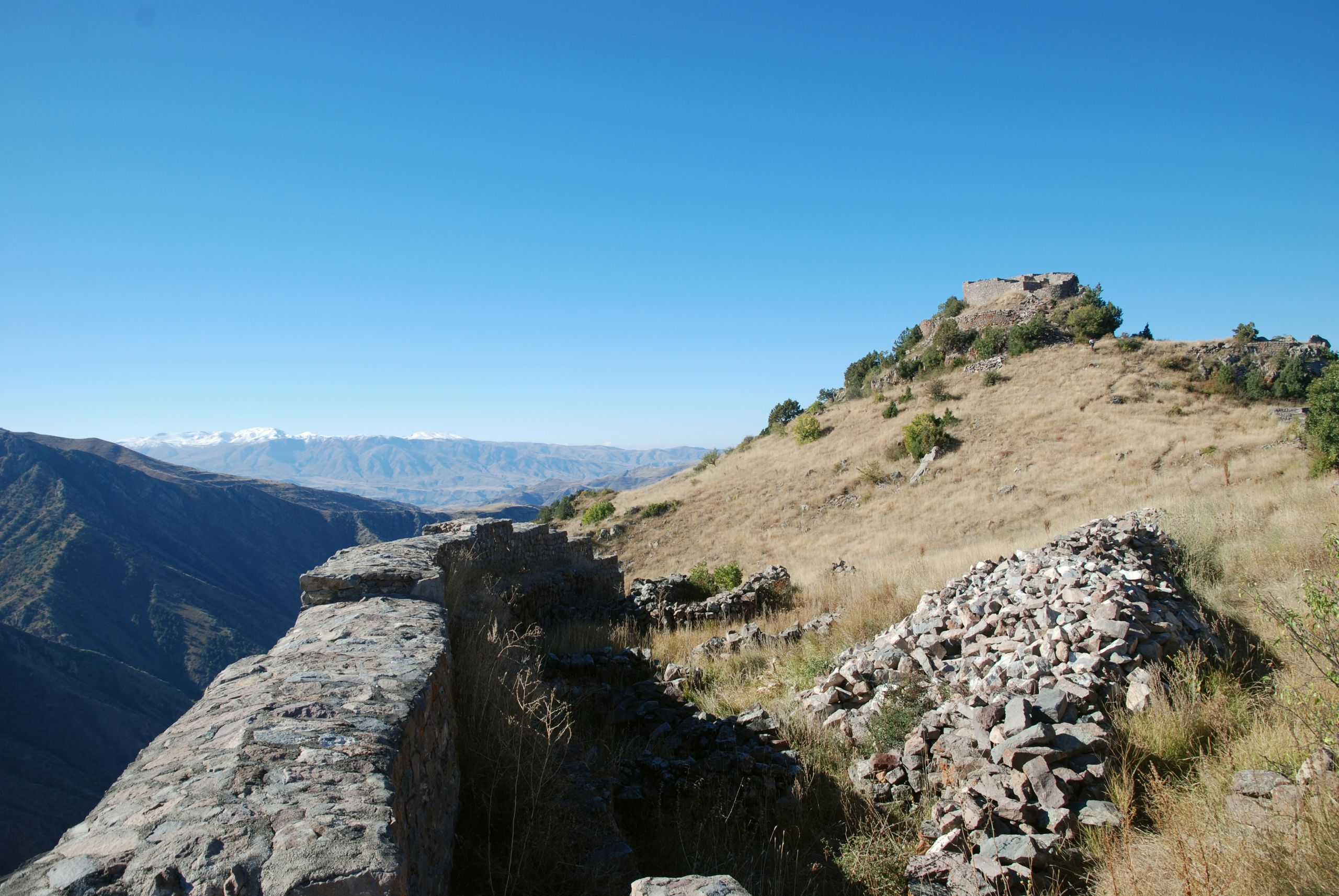 Smbataberd, northeast corner to citadel